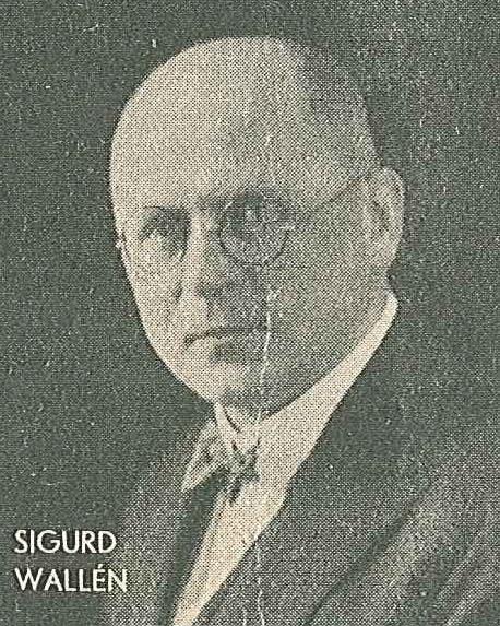 Sigurd Wallén (1884-1947), Swedish actor, singer and director. Photo from the sheet music to the song "När ringarna växlas om våren" from the 1931 film Brokiga Blad.